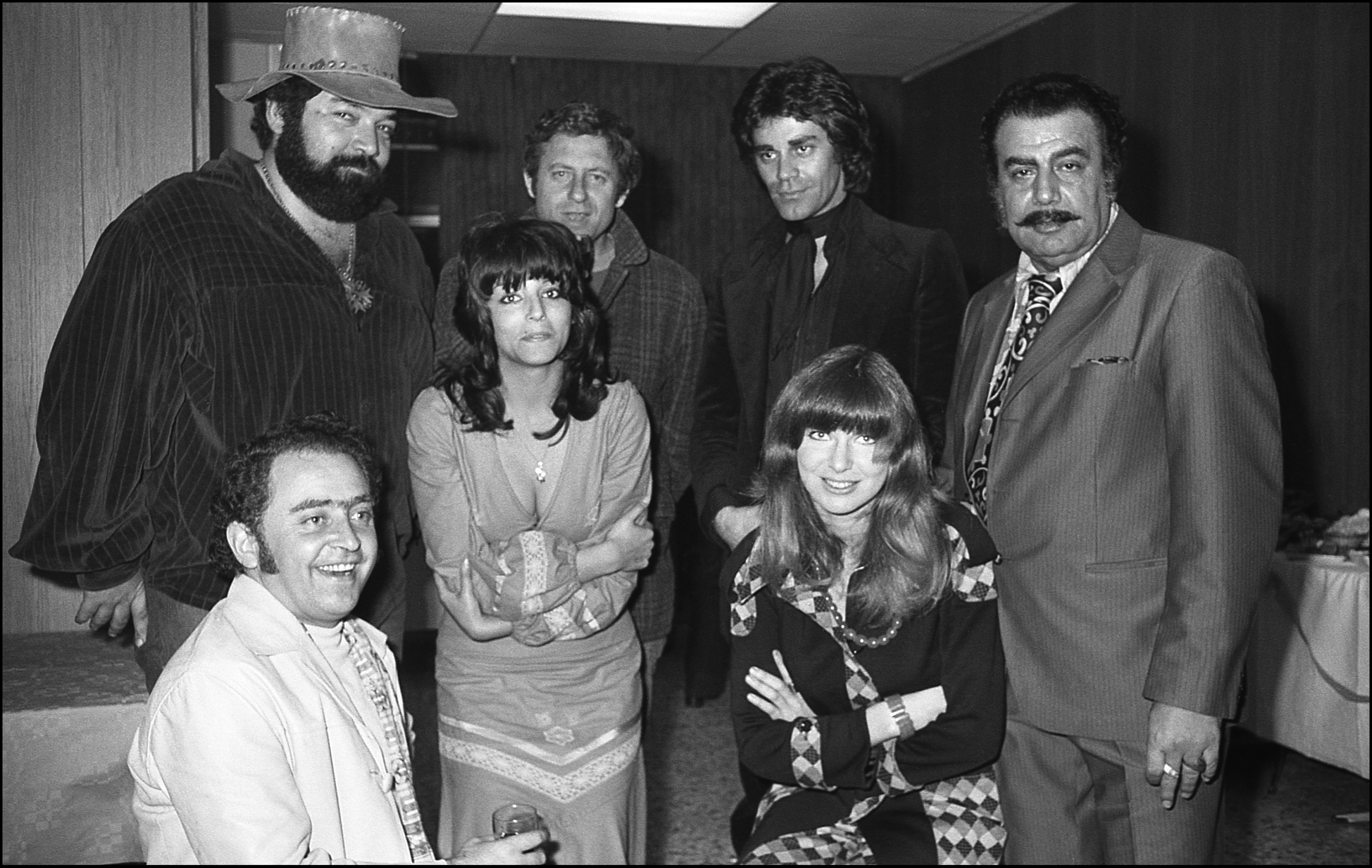 On the top, from left to right: Paul L. Smith, Uri Zohar, Joe Jaffer and George Abdías.On bottom, from left to right: Elian Moisés, Yona Elian and Rachel Forman.The Bull Buster (1975)